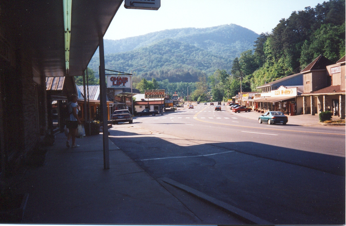 Main Street of Cherokee, North Carolina.